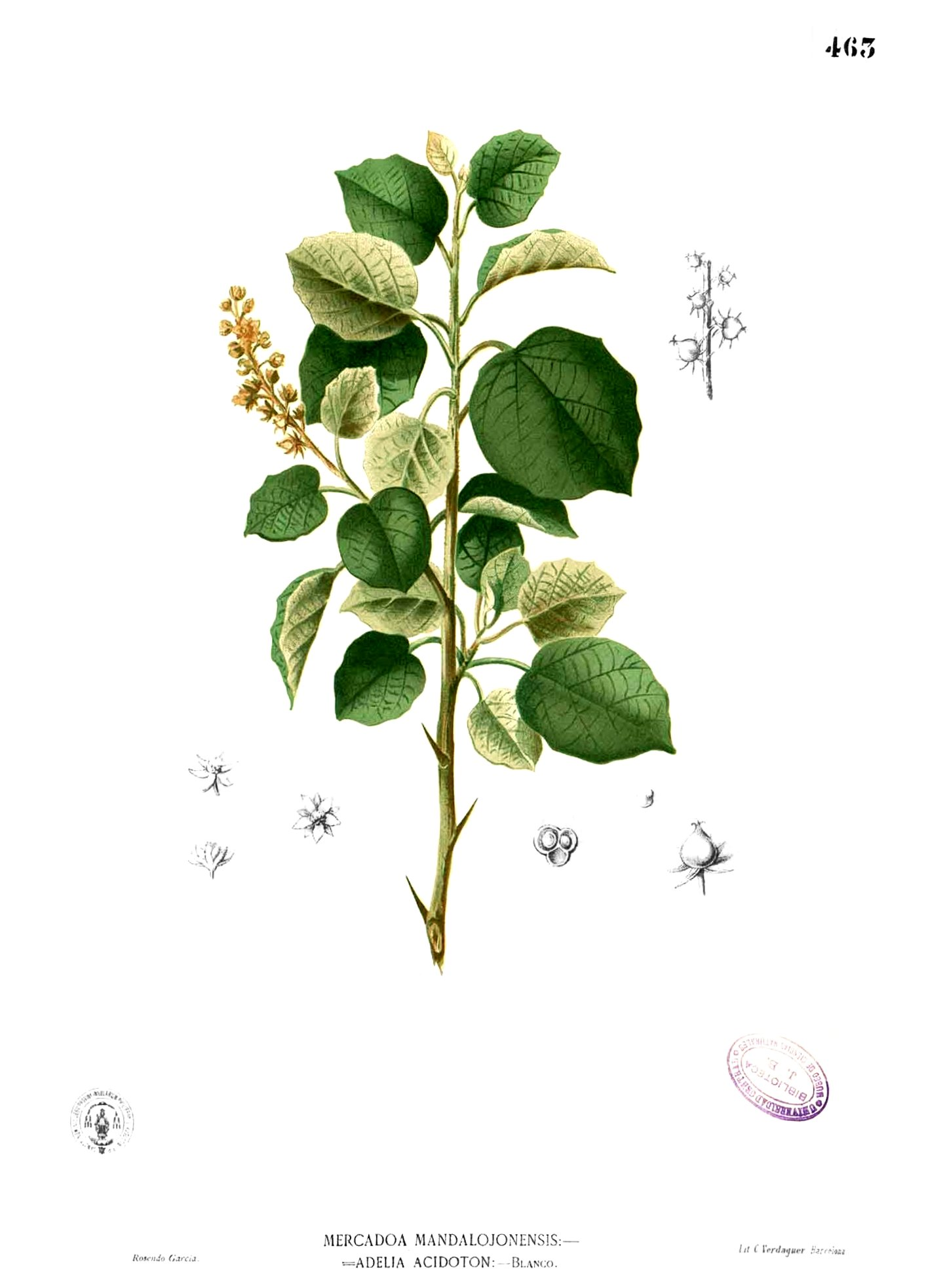 Plate from book